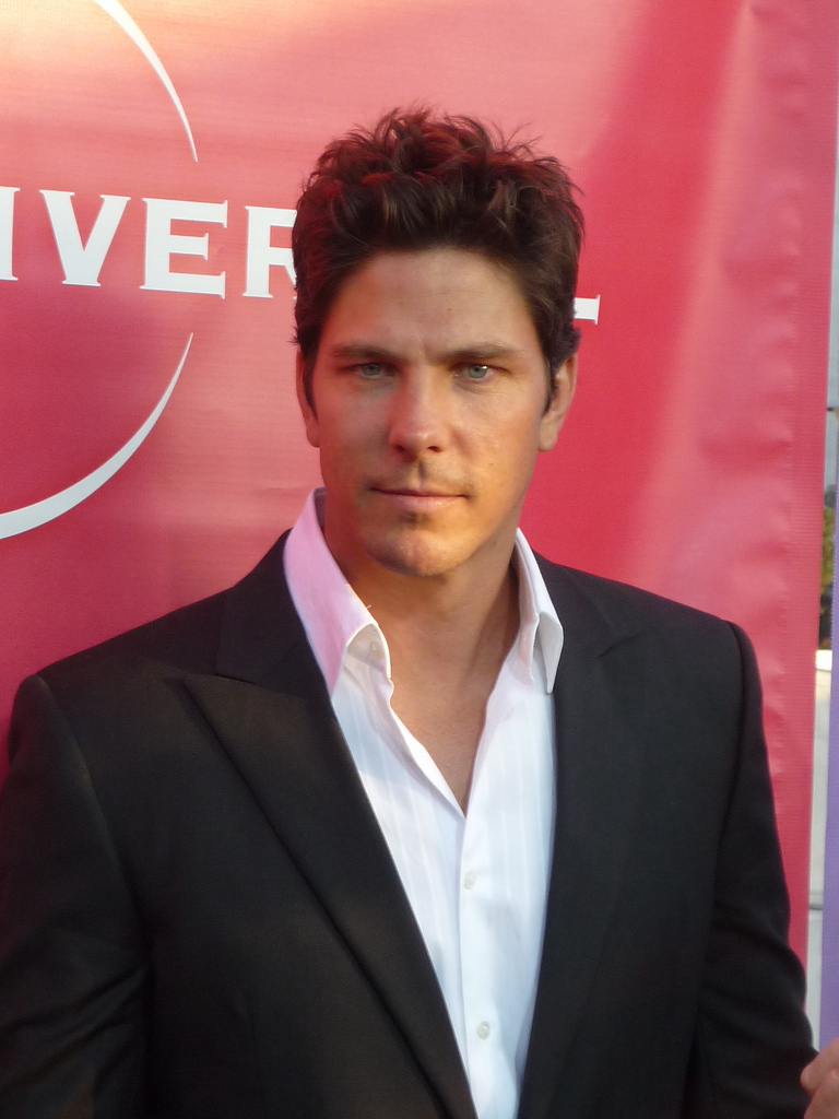 The actor Michael Trucco